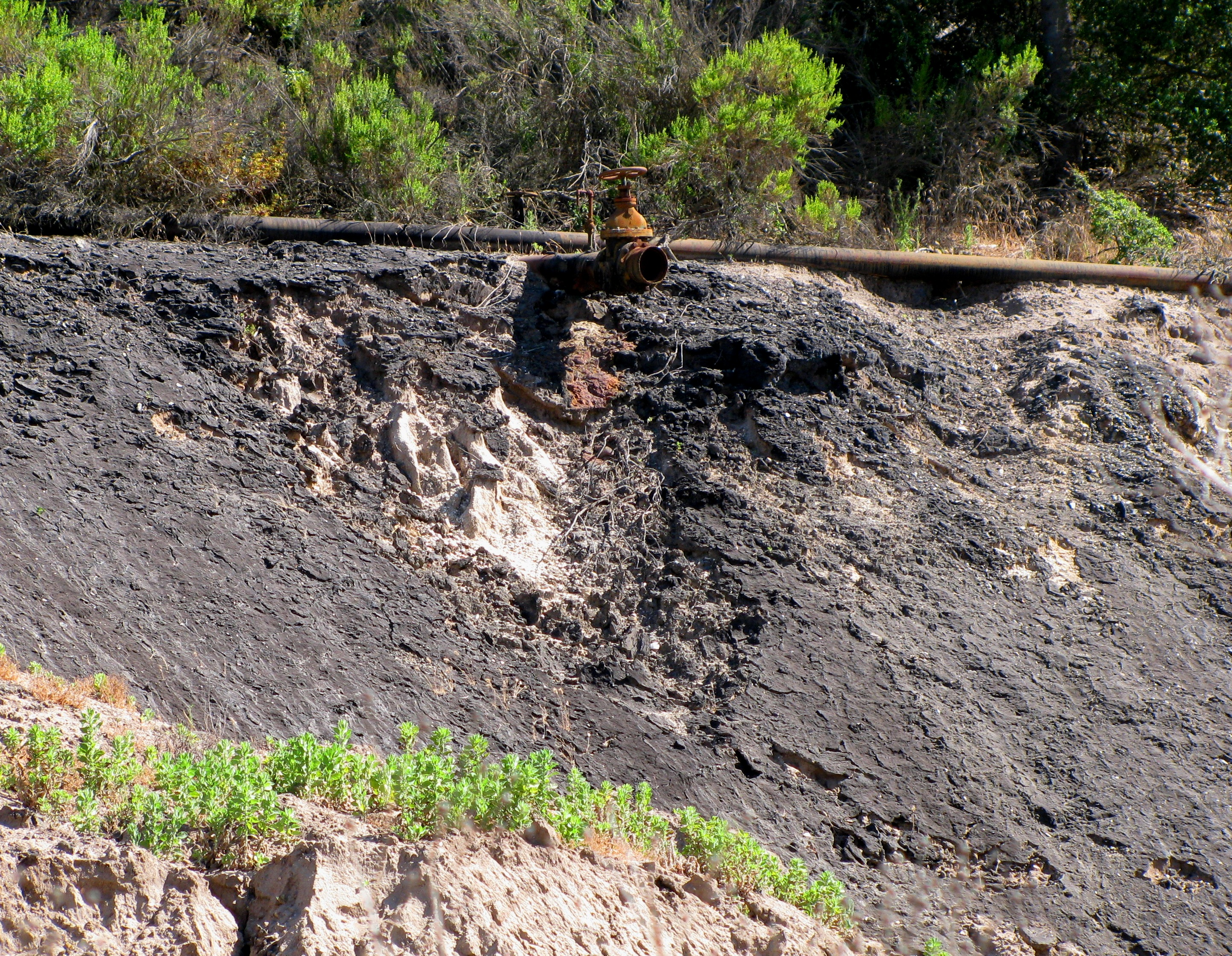 oil spill on Greka's Bell Lease, July 2009; photo by self; GFDL or equivalent